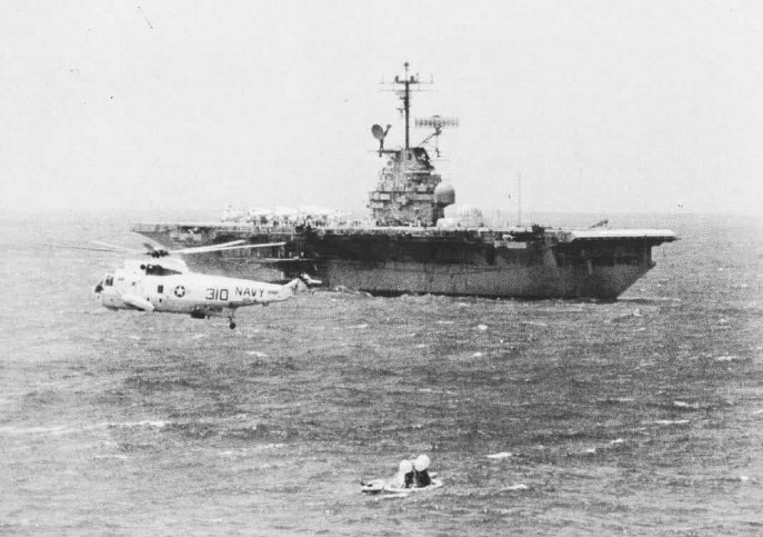 The recovery of the Apollo 12 crew on 24 November 1969 by a Sikorsky SH-3D Sea King helicopter of Helicopter Anti-Submarine Squadron 4 (HS-4) Black Knights. The aircraft carrier USS Hornet (CVS-12) is visible in the background.